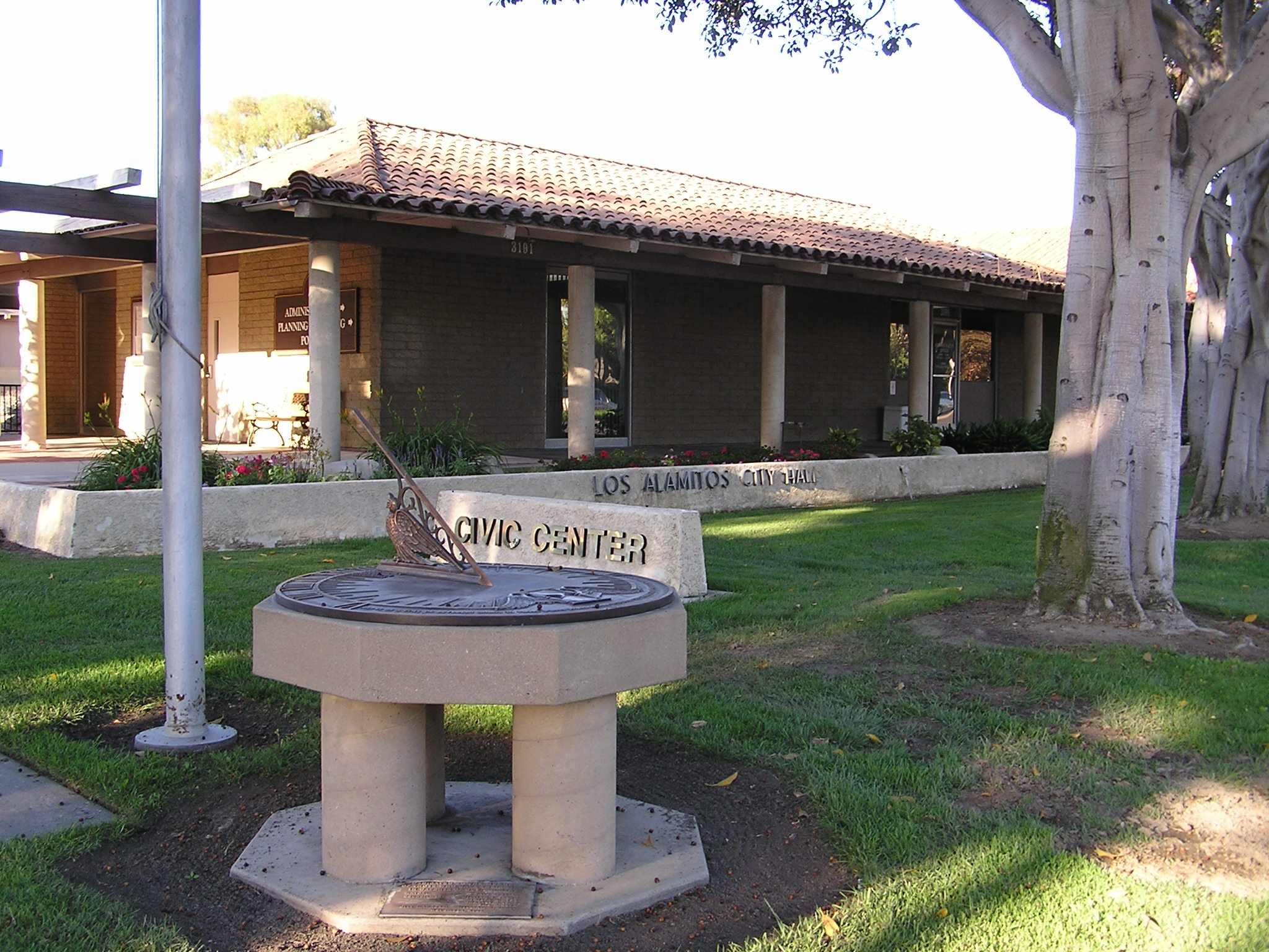 sun dial in front of Los Alamitos, California City Hall.